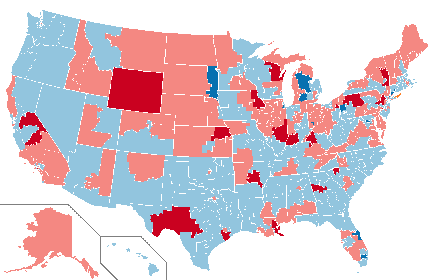 This map shows the results of the 1978 House Elections.